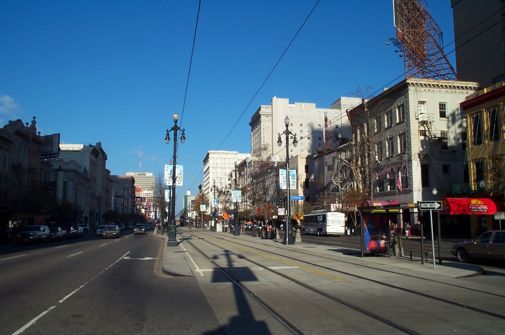 New Orleans